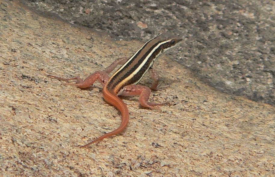 Ophisops leschenaultii young from Bannerghatta, India